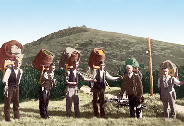 Koppenträger (mountain top bearer) from Groß Aupa (Velka Upa) in the Bohemian Giant Mountains (Krkonoše), ca. 1920. Picture shows Stefan Mitlöhner, Johann Hofer Jr., Emil Hofer, Robert Hofer and Johann Hofer Sr.